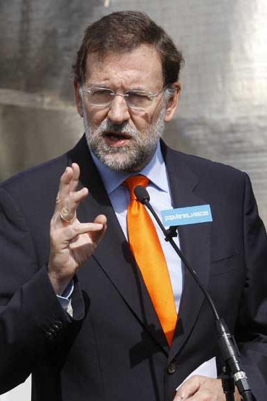 Mariano Rajoy in Bilbao, Biscay.